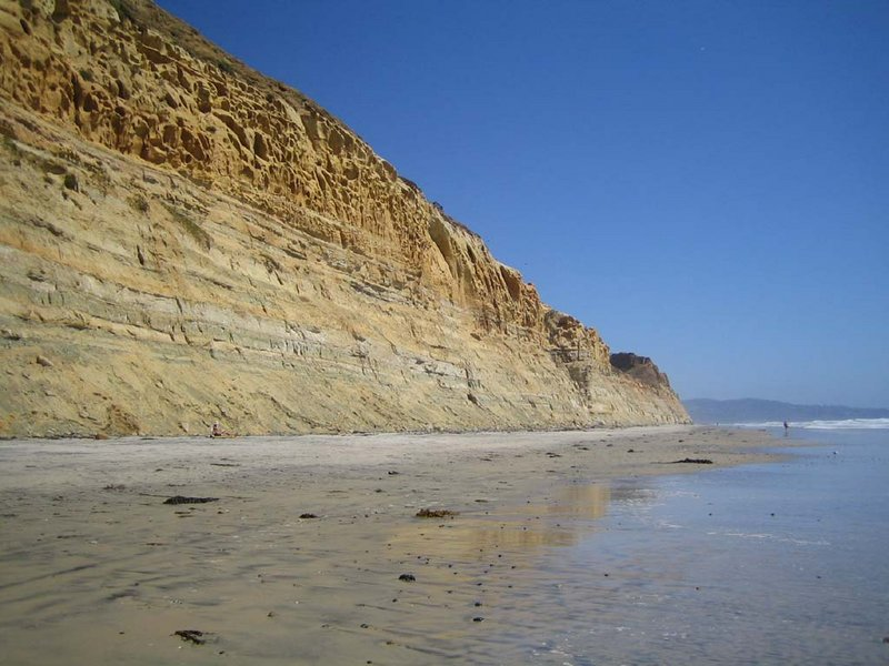 Black's Beach is a secluded section of beach beneath the bluffs of Torrey Pines on the Pacific Ocean in La Jolla, San Diego, California, United States